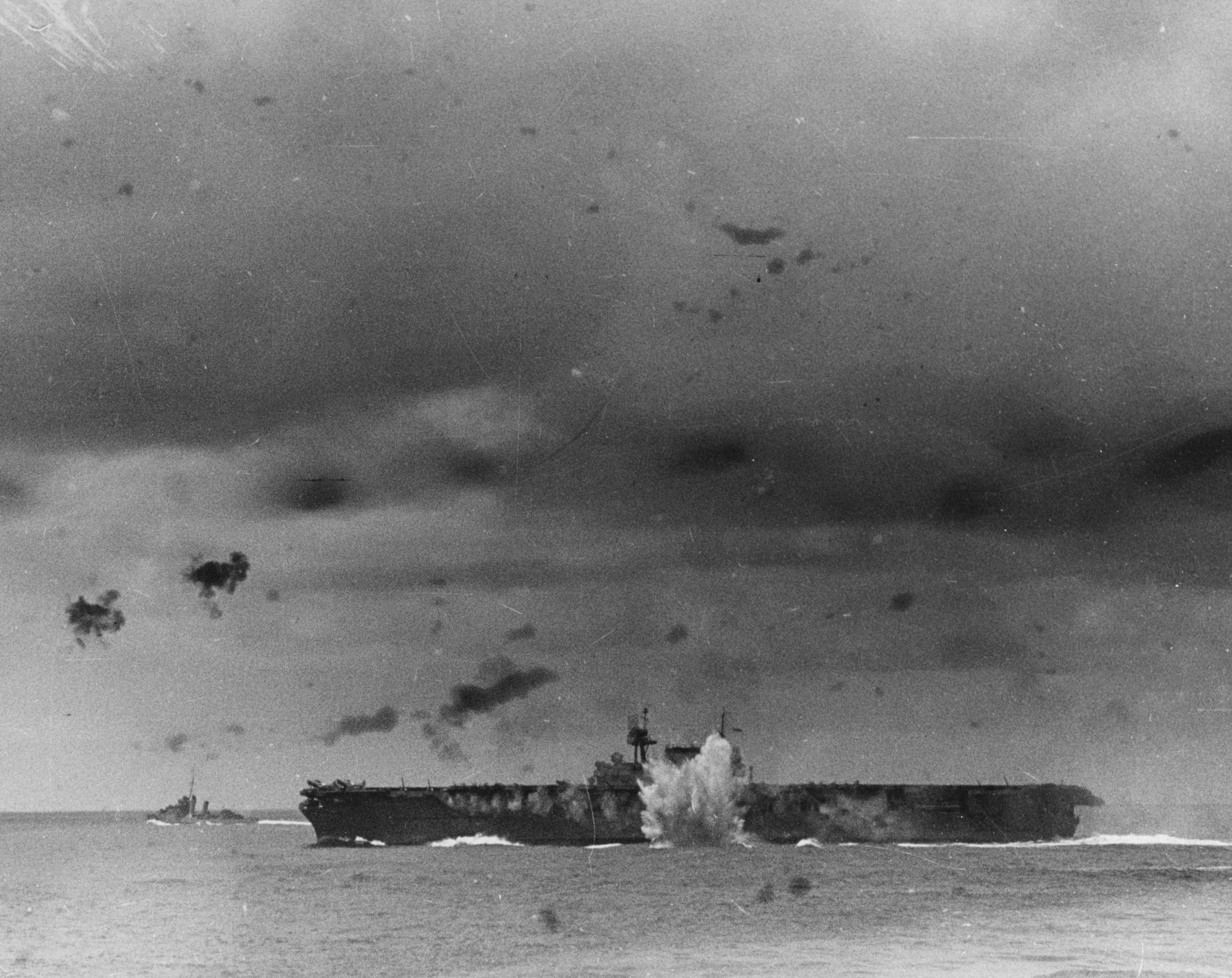 A Japanese bomb explodes off the port side of the U.S. Navy aircraft carrier USS Enterprise (CV-6) during the Battle of the Santa Cruz Islands, 26 October 1942.